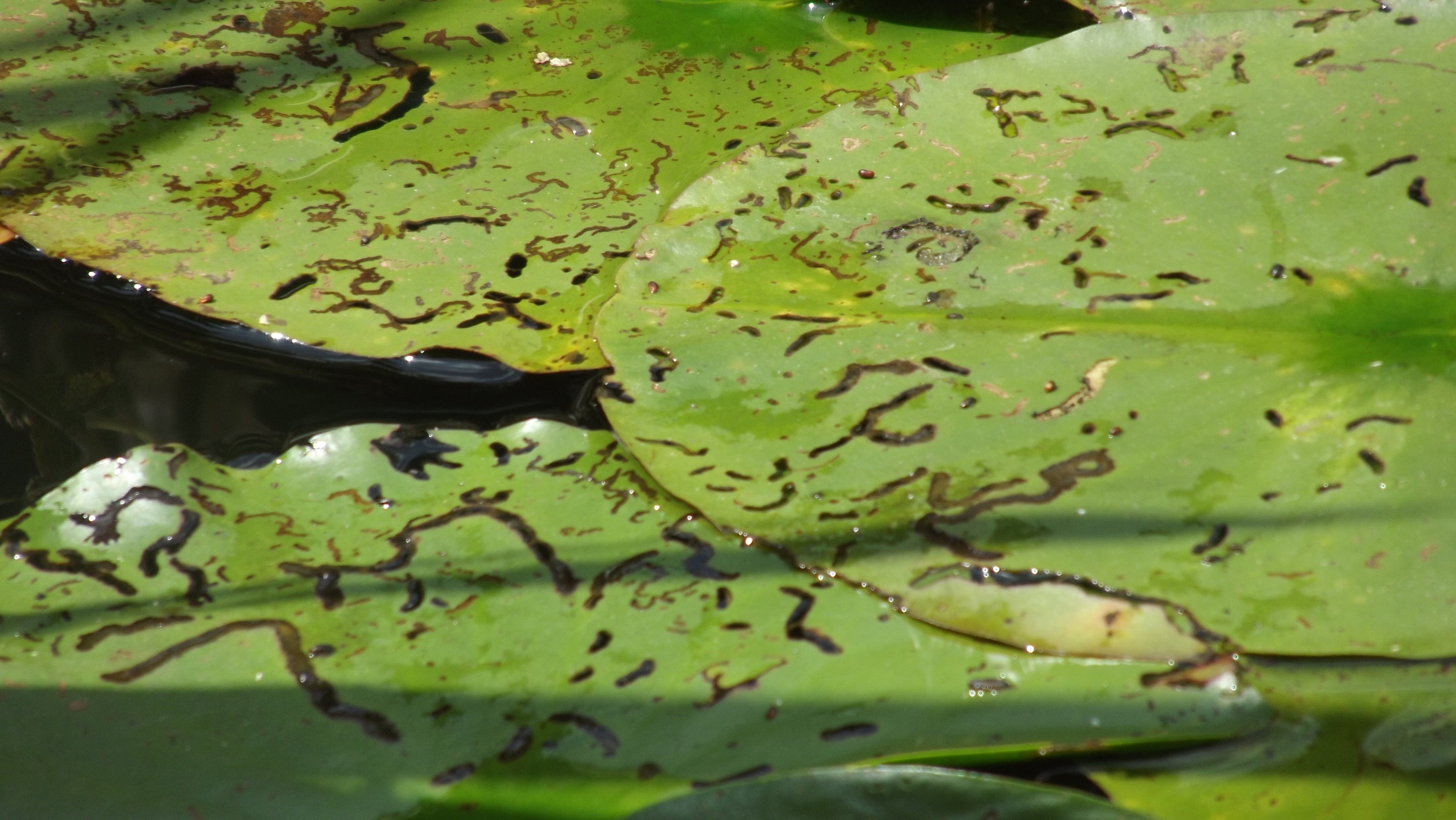 Nymphaea alba leaf damaged by Galerucella nymphaeae